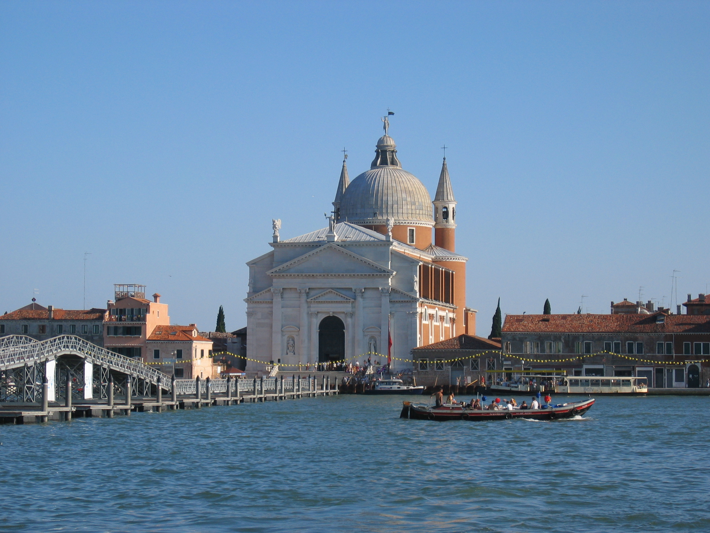 Chiesa del Redentore (Church of the Redeemer), Venice (Italy)